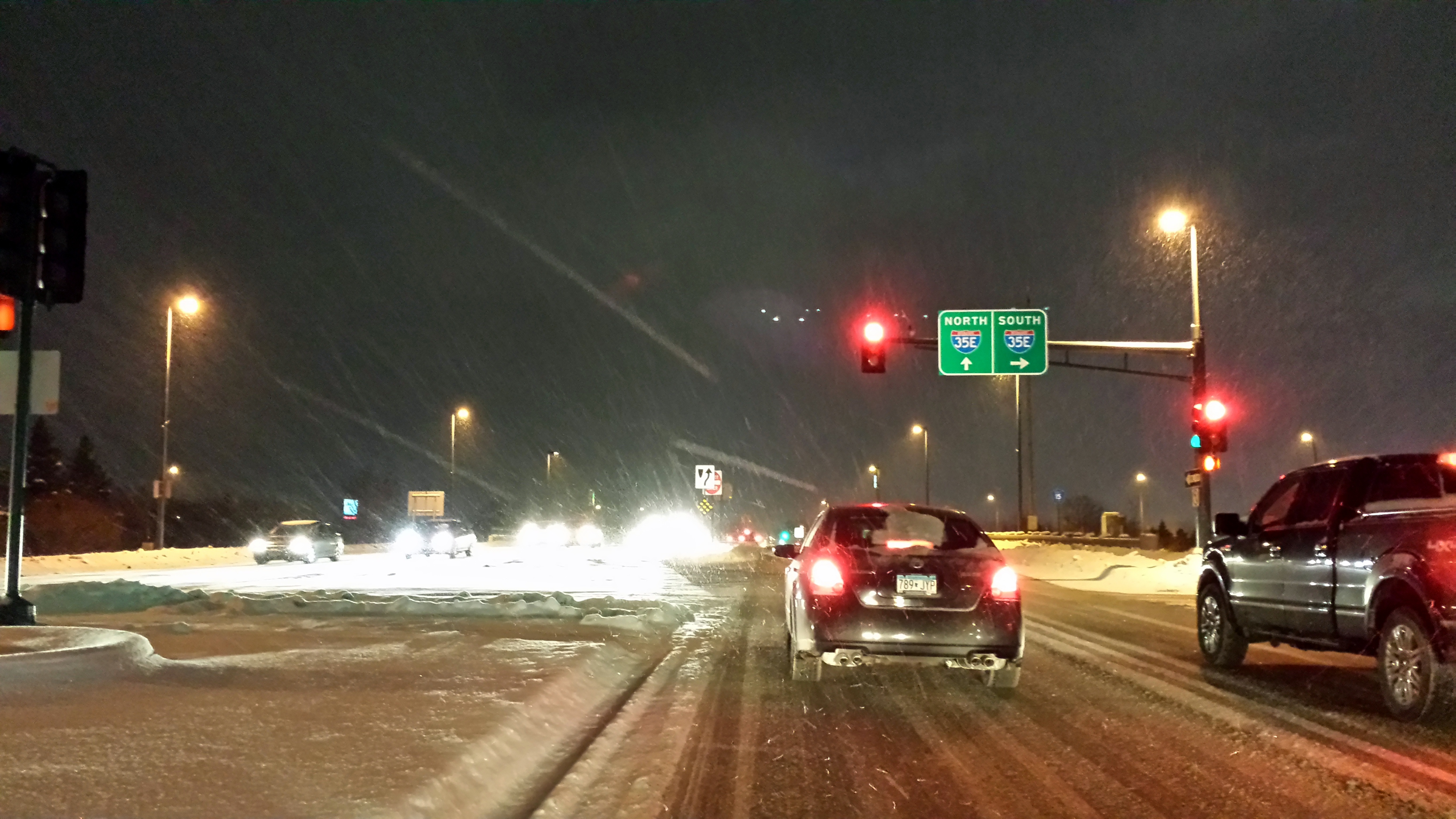 County Rd E and 35E - Vadnais Heights, MN